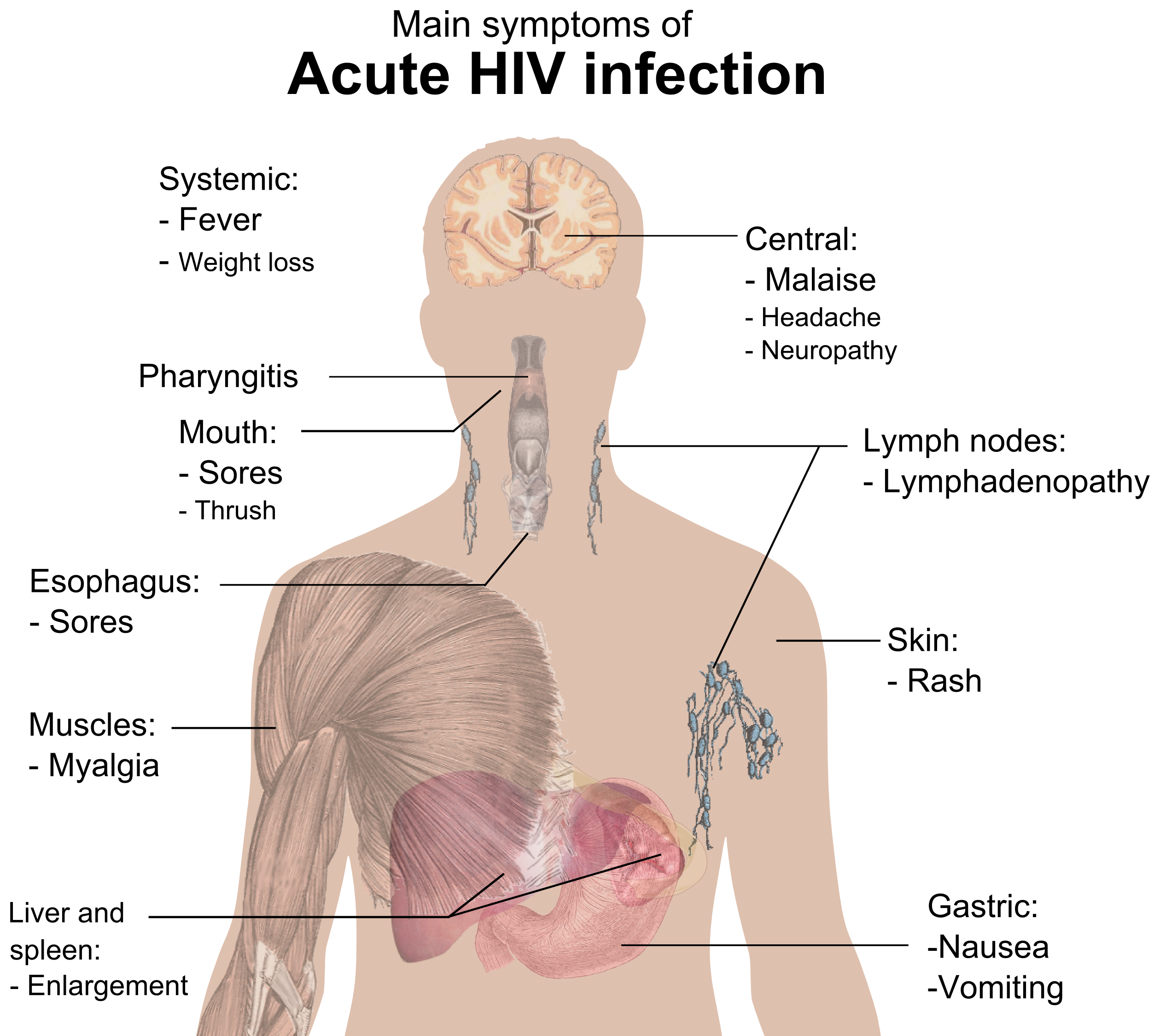 Main symptoms of acute HIV infection. Sources are found in main article: Wikipedia:Hiv#Acute_HIV_infection. To discuss image, please see Template talk:Human body diagrams